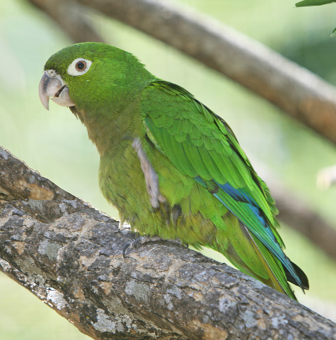 Jamaican Parakeet (aka Olive-throated Parakeet or Aztec Parakeet) in captivity in Costa Rica.